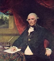 Samuel Whitbread (1720-1796) by Sir Joshua Reynolds